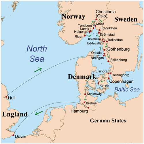 Map showing the route described in Letters Written in Sweden, Norway and Denmark. Based Holmes, Richard. "Introduction". A Short Residence in Sweden, Norway and Denmark and Memoirs of the Author of A Vindication of the Rights of Woman. New York: Penguin Books, 1987. ISBN 0-14-043269-8.